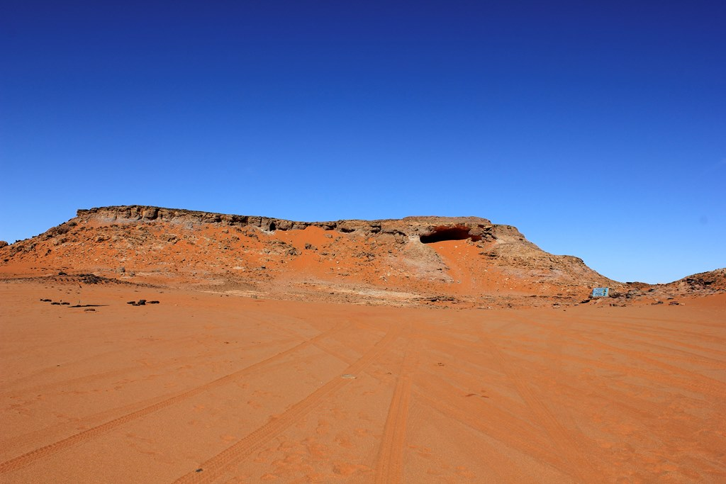 Cave of Magharet el Kantara: General view